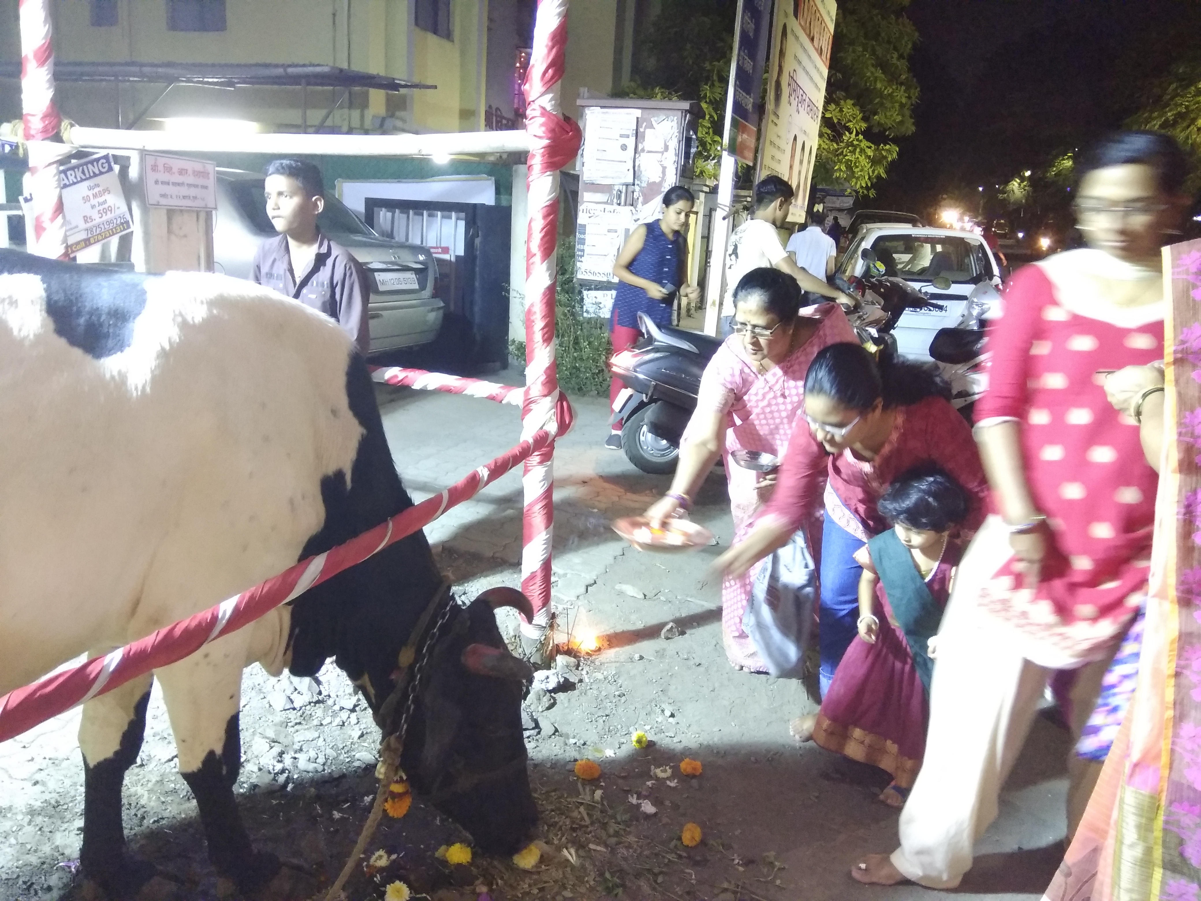 Pooja of cow on the day of diwali